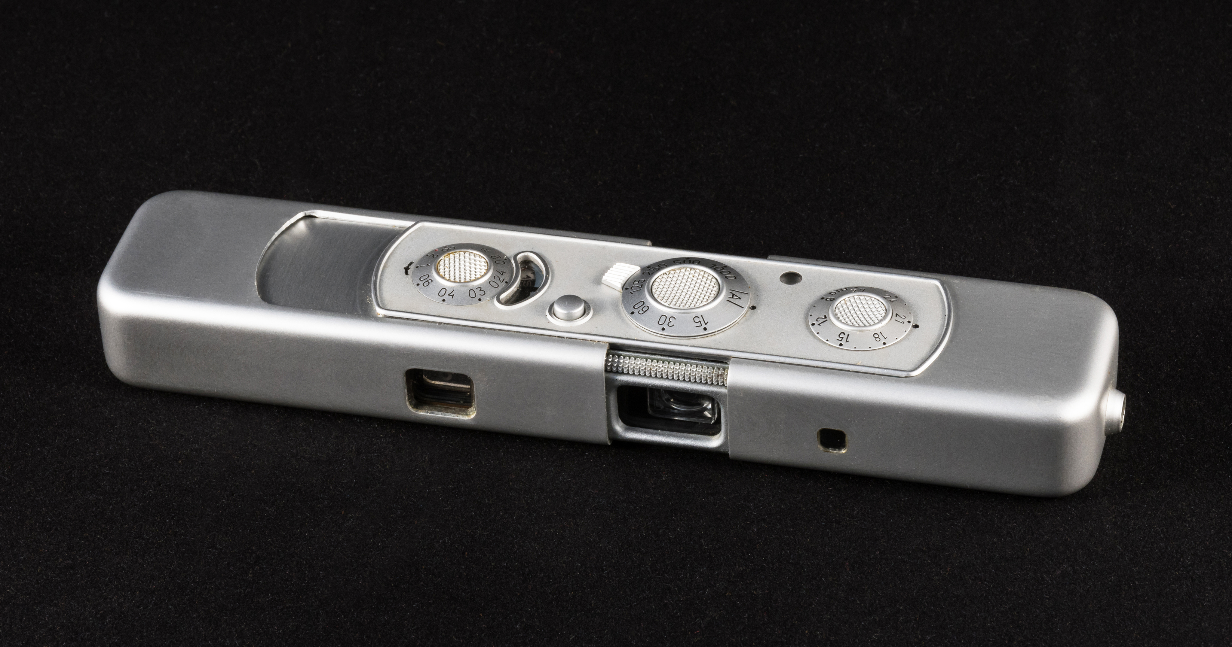 Sub-miniature spy camera Minox C